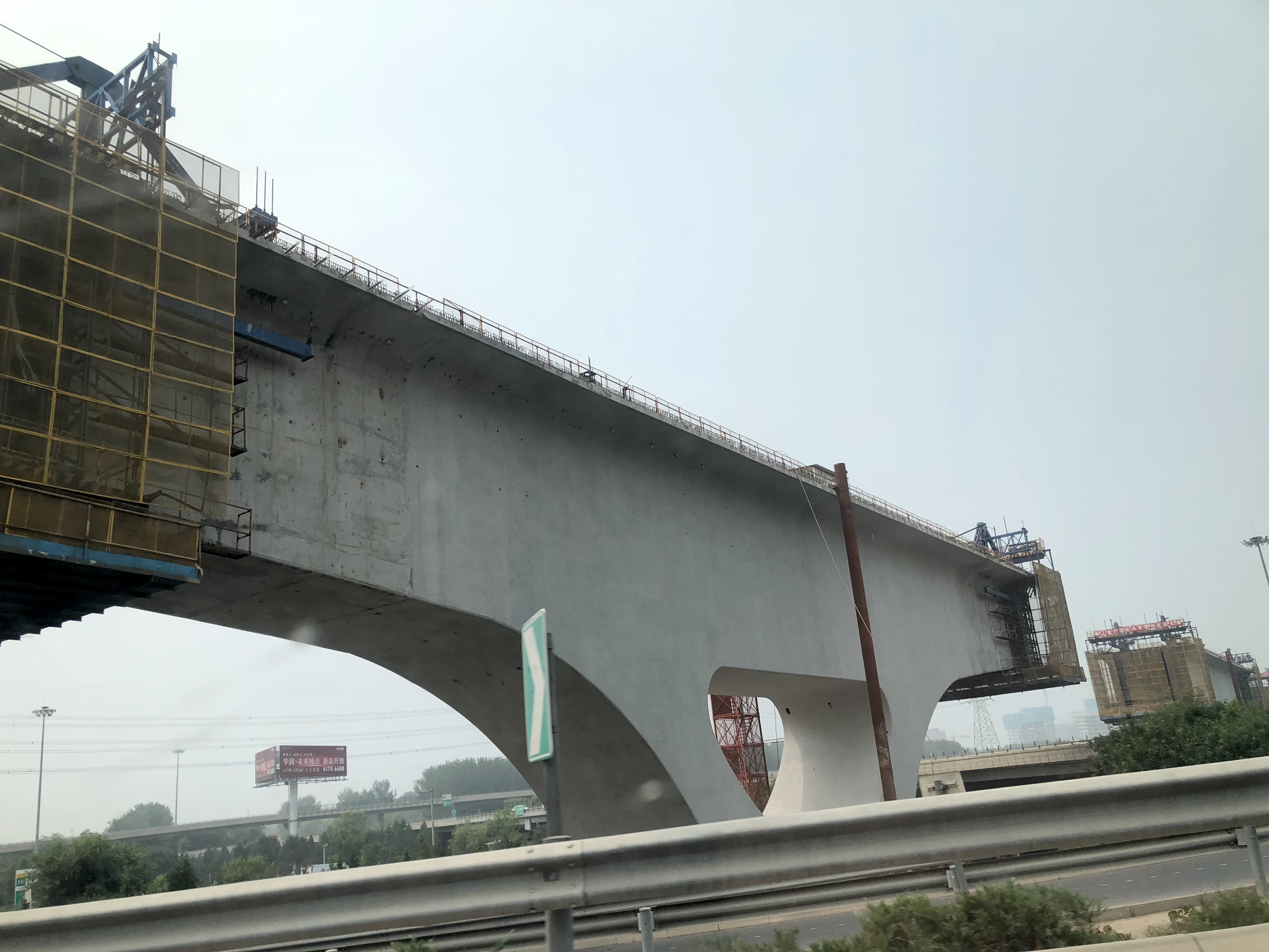 Construction of Beijing-Shenyang HSR